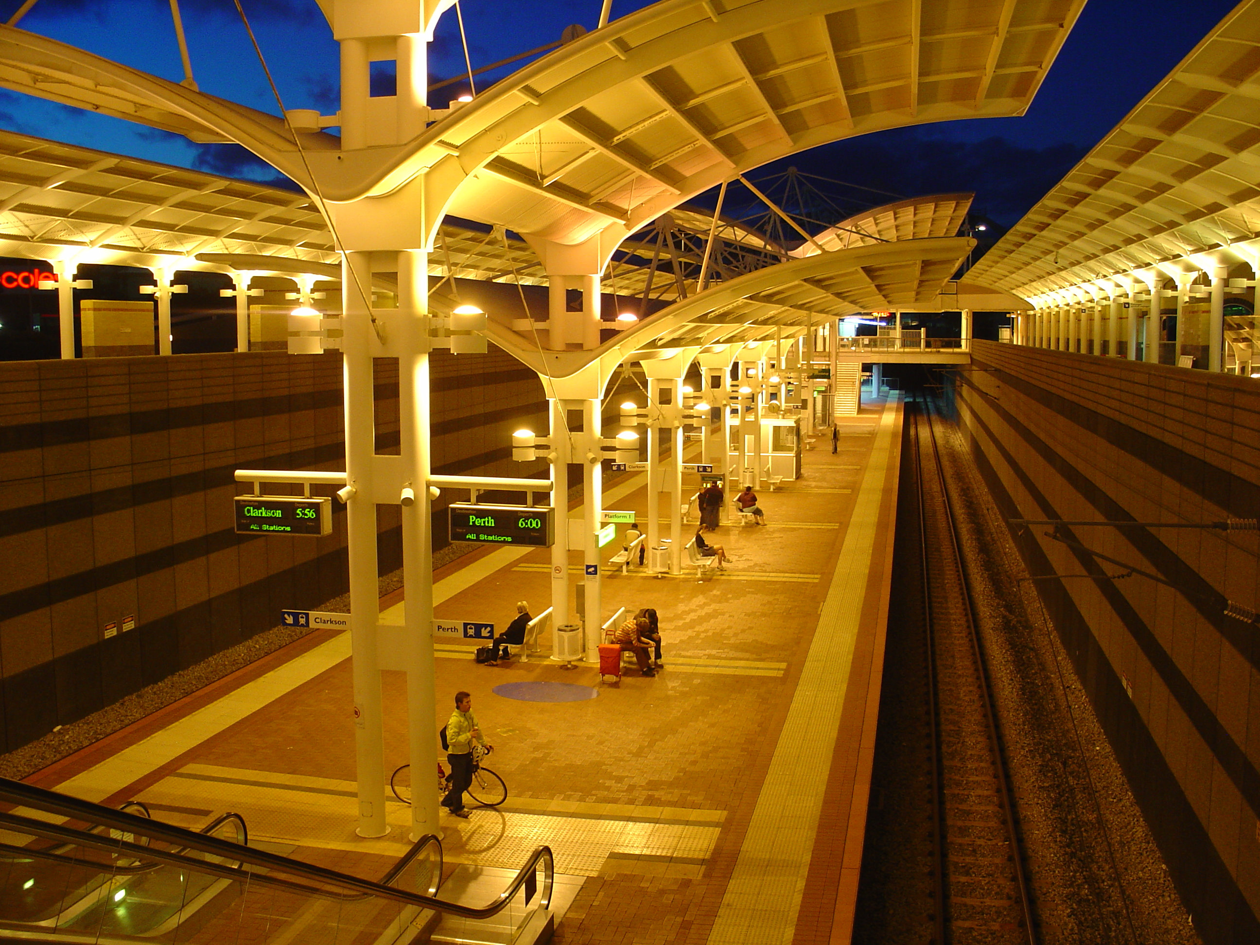 Shot from concourse level looking down to the platform at Joondalup Railway Station at night.